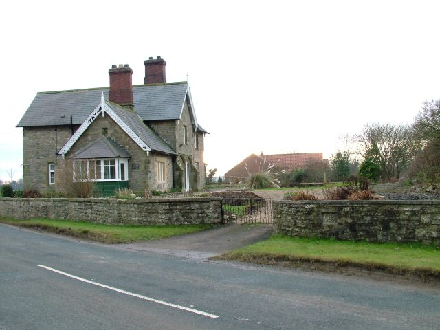 Former Scorton Station, North Yorkshire. The station was restored in recent years as a private house after closure in 1969. Photo looking west from the former level crossing.